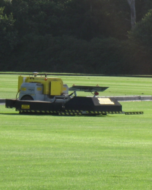 Robot/remote control lawn-mower About 9ft long, cutting grass. Guards Polo Club managing to do without humans??